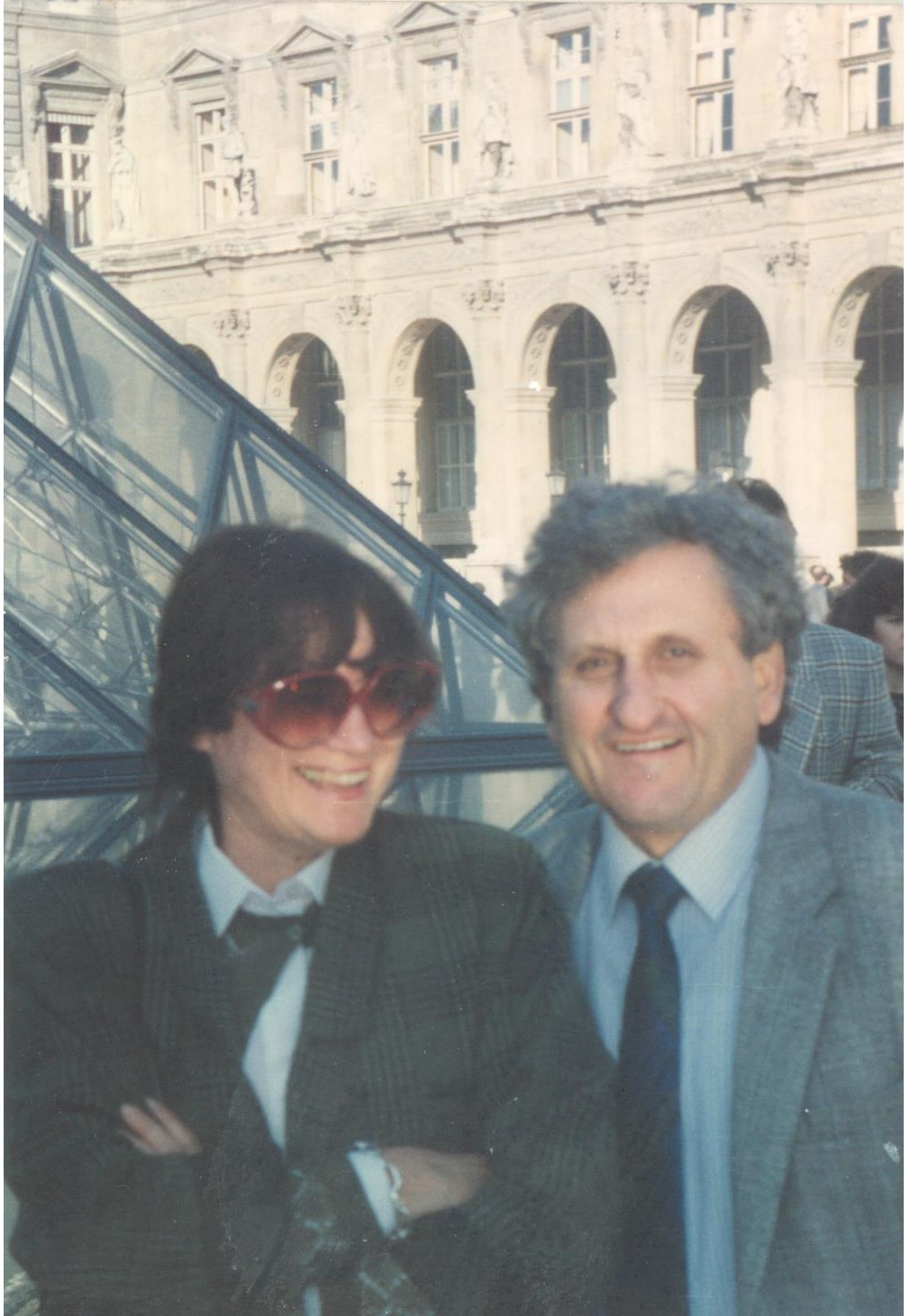 A B Yehoshua and his wife RIvka Yehoshua at the court of the louvre in Paris during the 90's